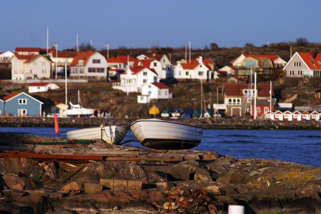 View of the harbour in Björkö, from Hälsö, in Bohuslän.